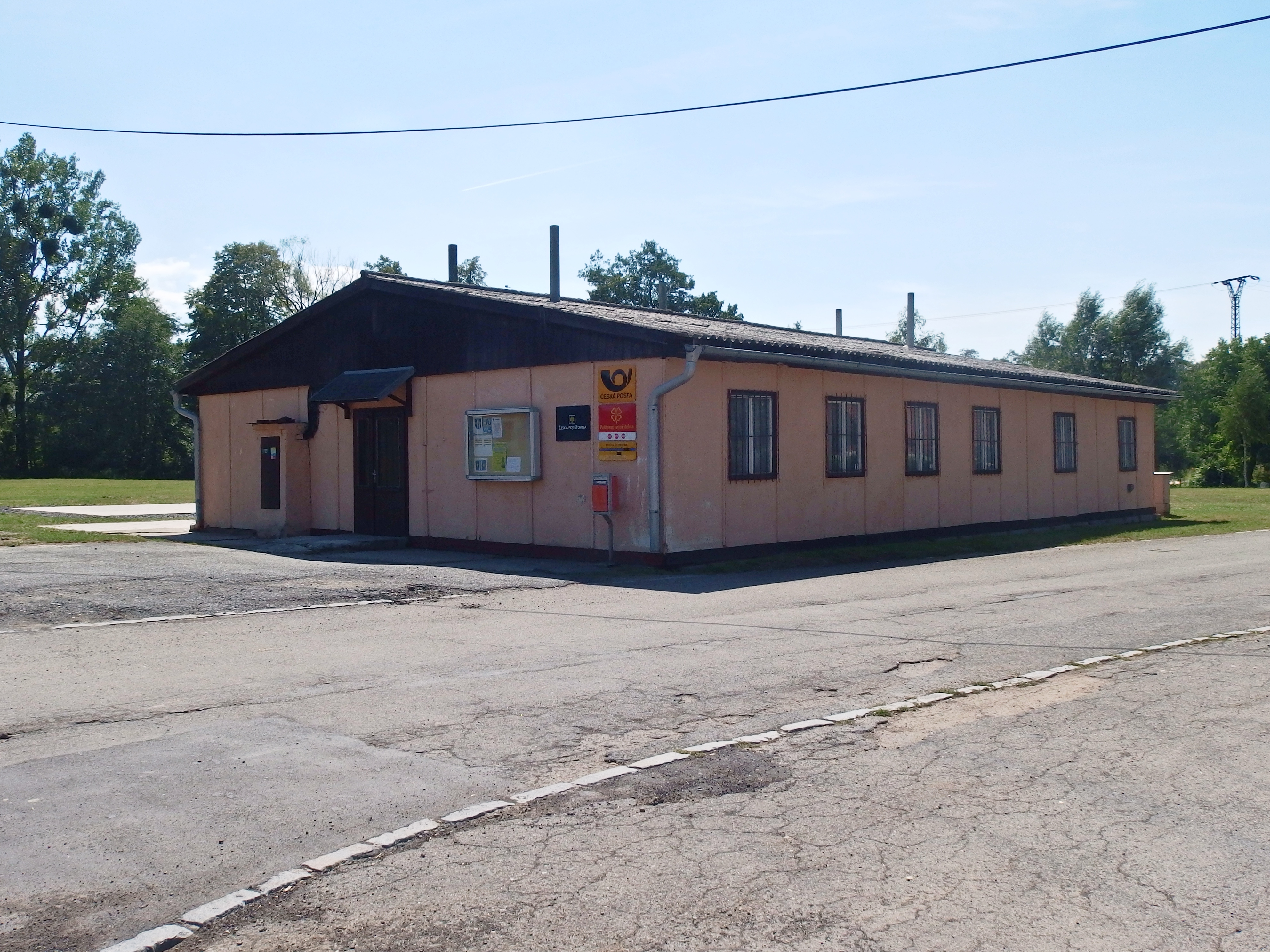 Polom, Přerov District, Czech Republic.